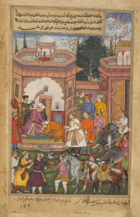 Aswamedhikaparwa